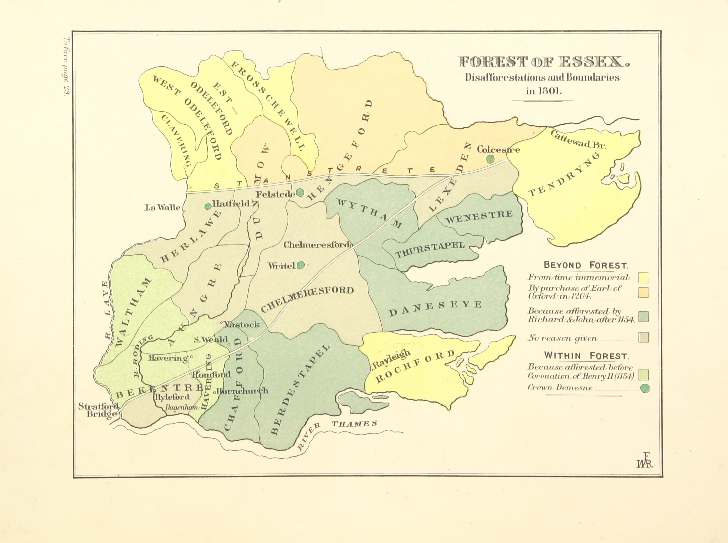 View this map on the BL Georeferencer service. Image taken from: Title: "The Forest of Essex: its history, laws, administration and ancient custom, etc" Author: FISHER, William Richard. Shelfmark: "British Library HMNTS 10350.f.32." Page: 48 Place of Publishing: London Date of Publishing: 1888 Publisher: Butterworths Issuance: monographic Identifier: 001244267 Explore: Find this item in the British Library catalogue, 'Explore'. Open the page in the British Library's itemViewer (page image 48) Download the PDF for this book Image found on book scan 48 (NB not a pagenumber)Download the OCR-derived text for this volume: (plain text) or (json) Click here to see all the illustrations in this book and click here to browse other illustrations published in books in the same year. Order a higher quality version from here.